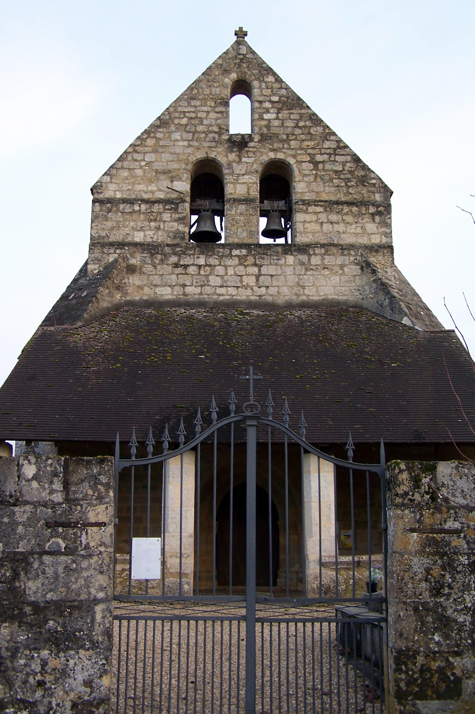 Church of Saint-Laurent-du-Bois (Gironde, France)